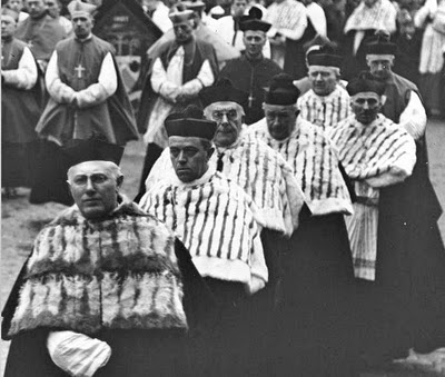 Funeral procession, Bruges